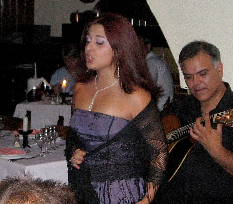 Fado singer Debora Rodrigues performs in Lisbon. The Portuguese pronounce Rodrigues as "Ru-dreegs" and not "Ro-dreeg-ez".